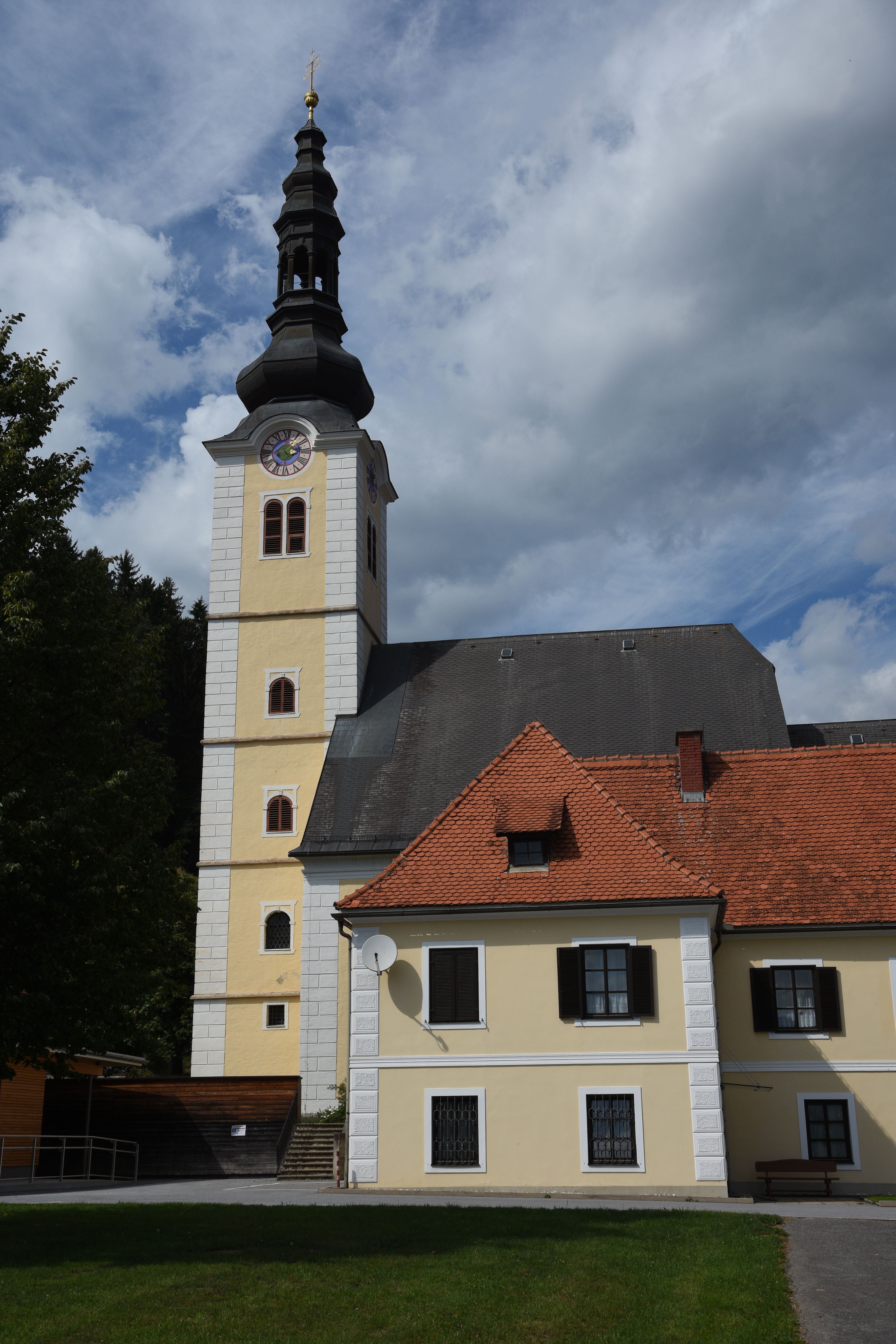 Church Veitskirche (Passail)